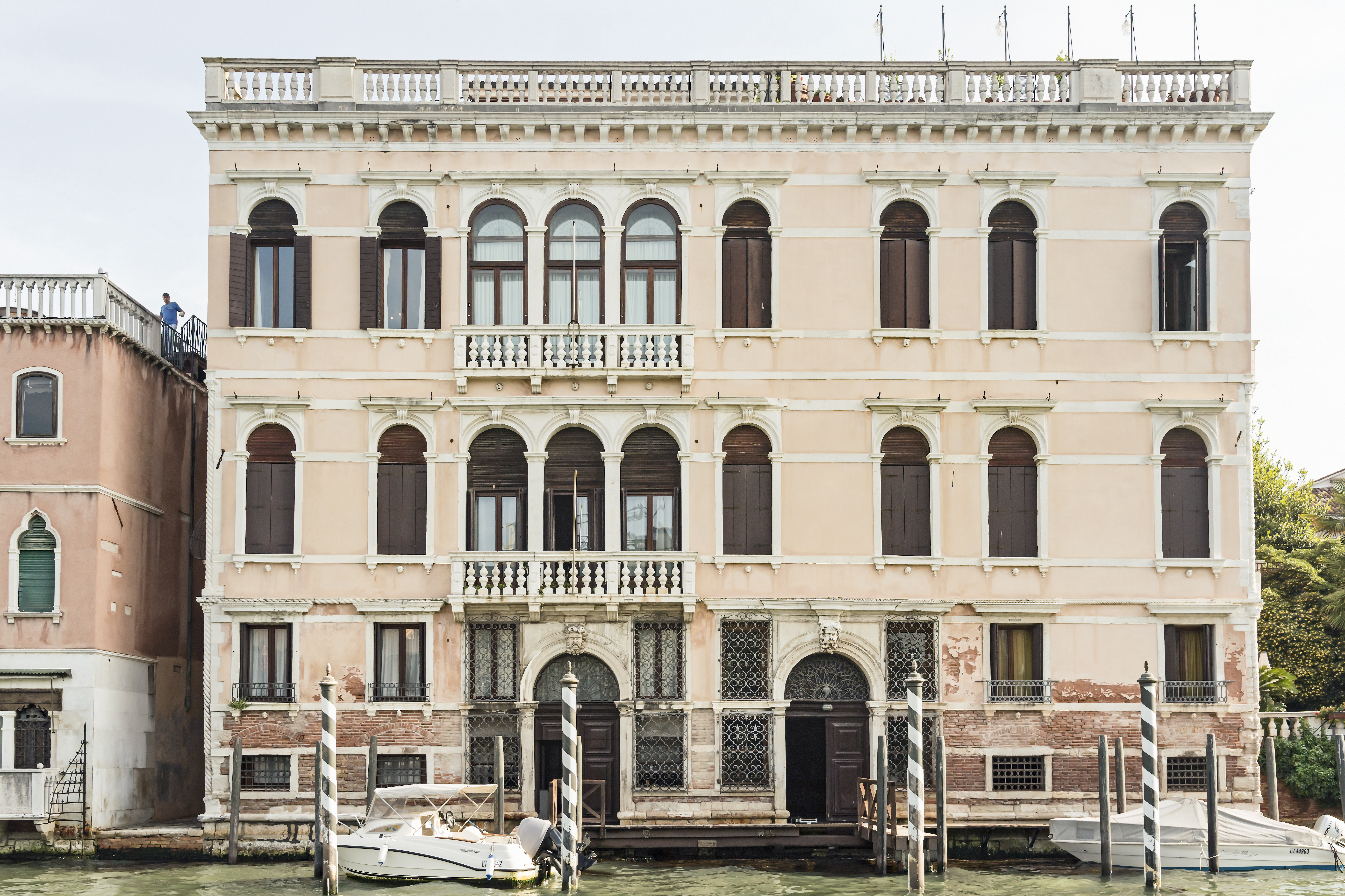 Palace Correr Contarini Zorzi in Venice – Facade on Grand Canal